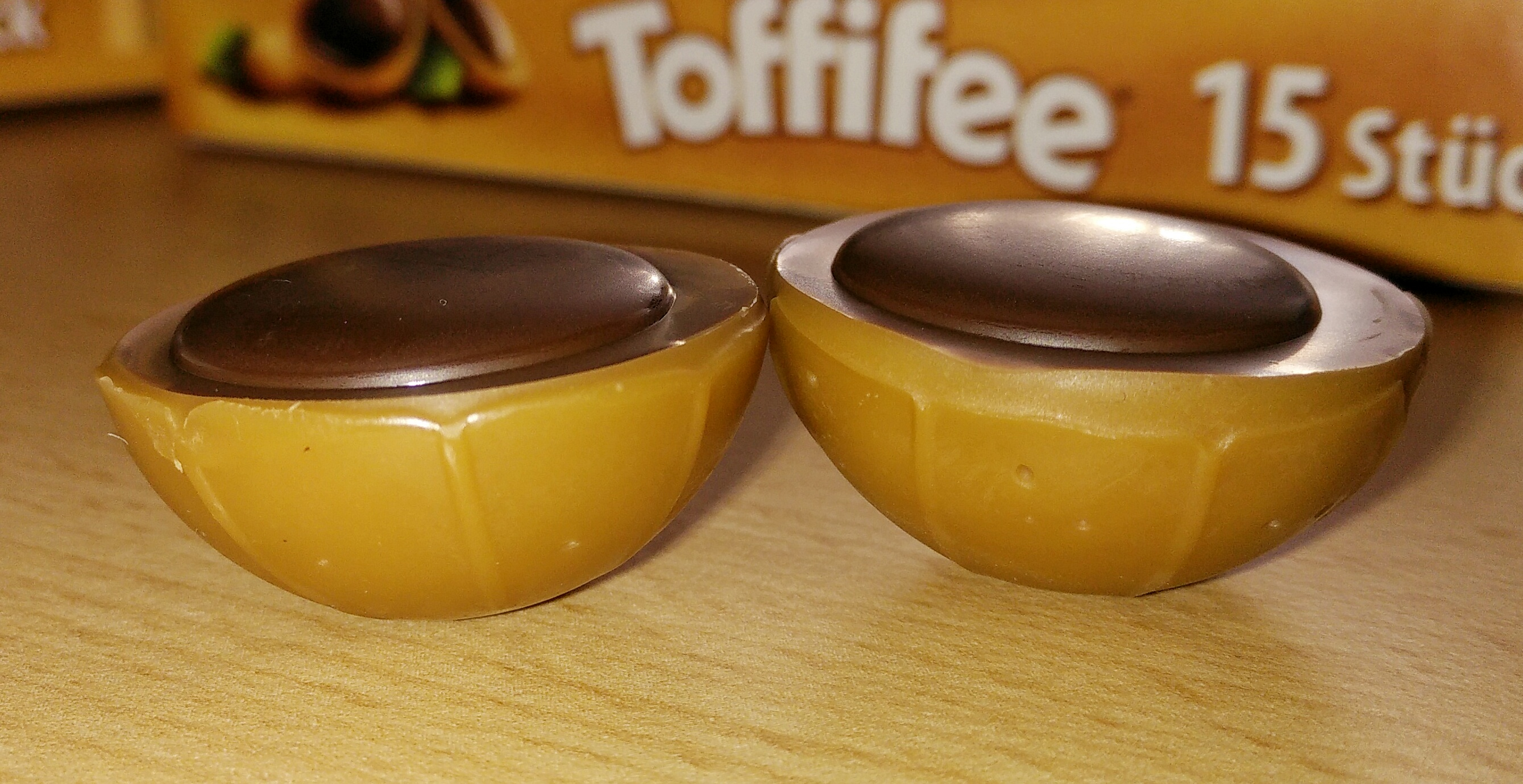 A pair of toffifees.